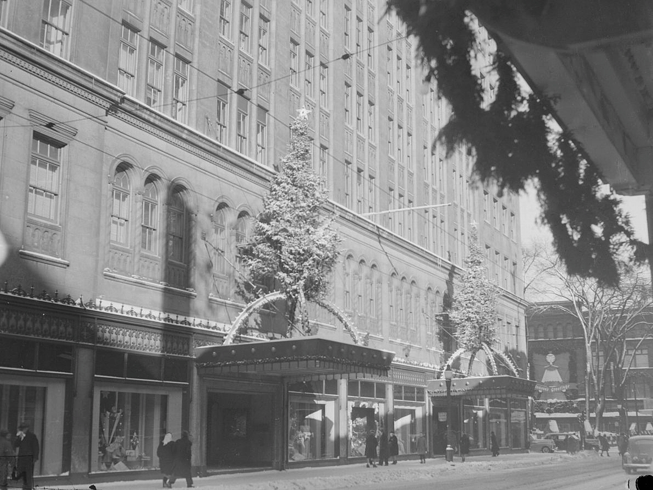 The façade of the Eaton's department store decorated for Christmas, Montreal, Canada.